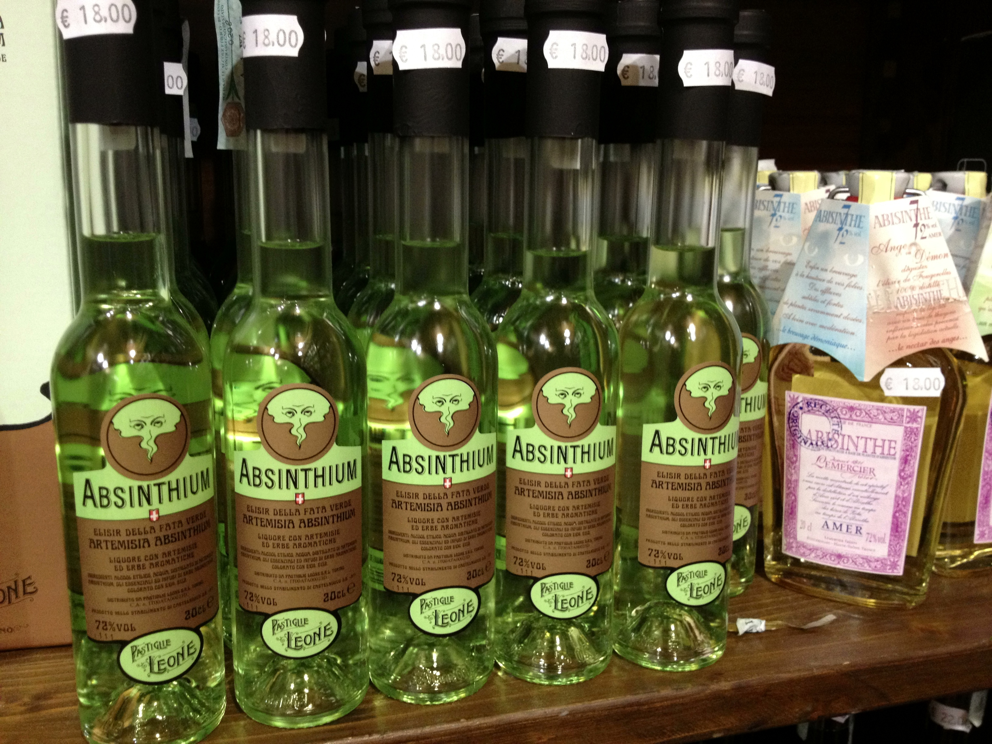 A picture of Absinthe bottles in Europe.